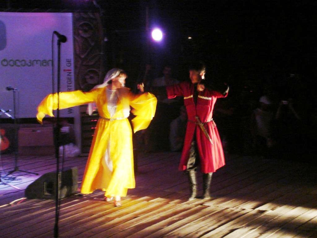 Kist folk ensemble "Pankisi" from the Pankisi Gorge performing at the ArtGene festival (Ethnographic Museum, Tbilisi, Georgia)